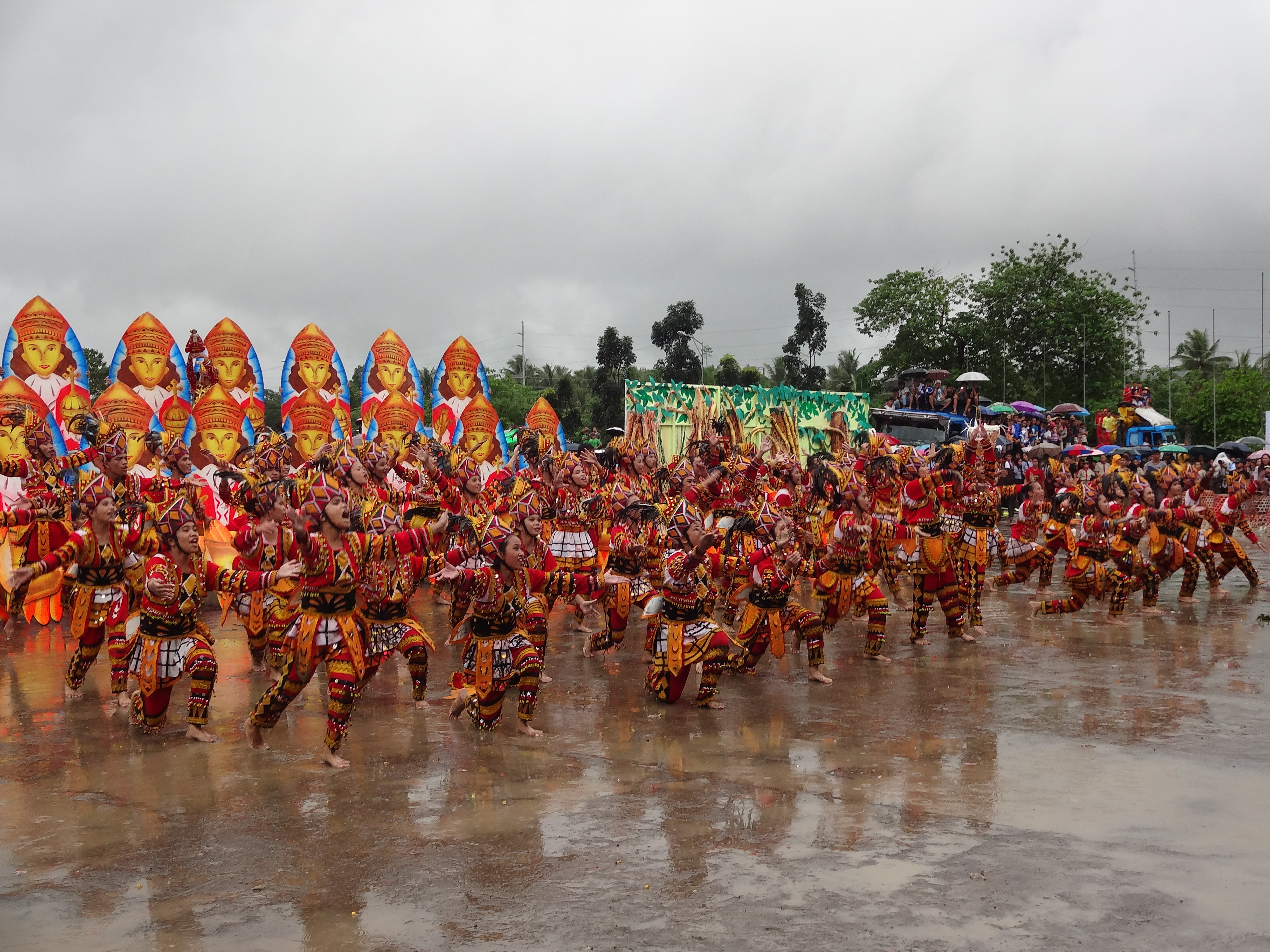 This is my own work. One of the contestants were present their dance number during the Kahimunan Festival 2018 at Libertad (Butuan) Sports Complex in Butuan City.